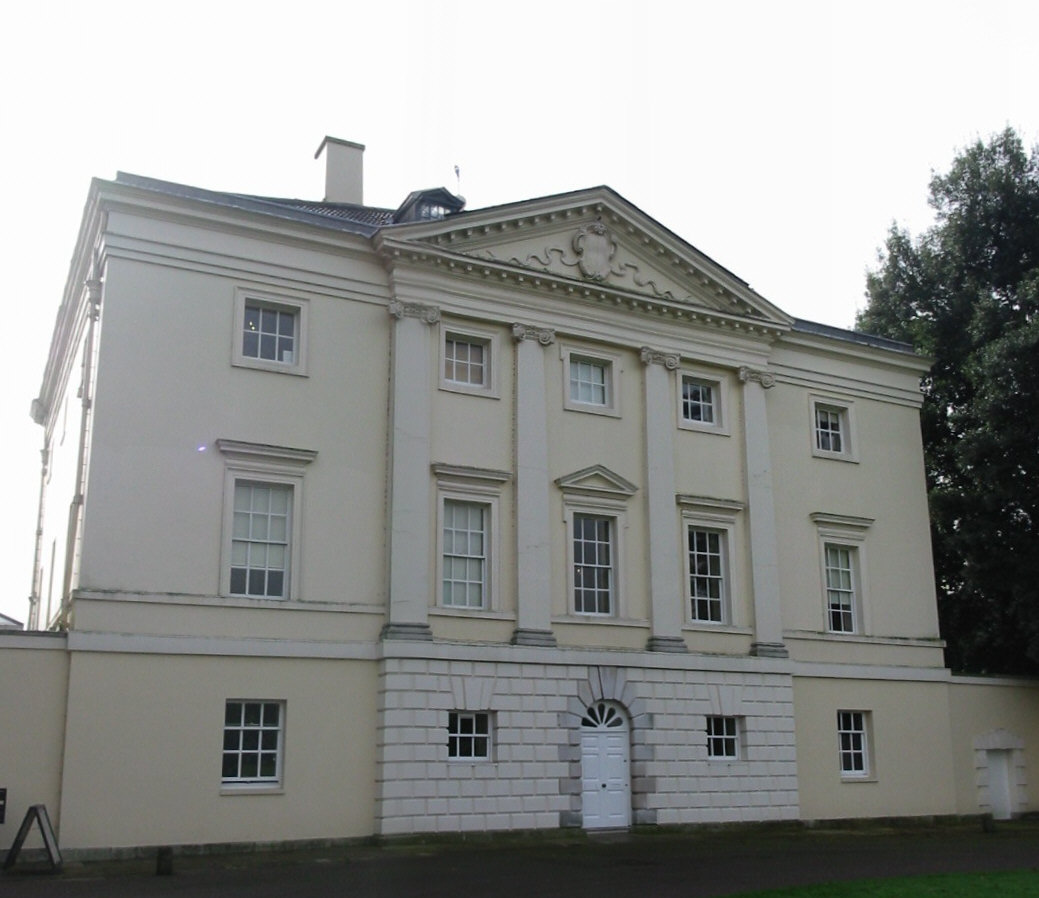 A merged view of the north (City) front of Marble Hill House in west London.